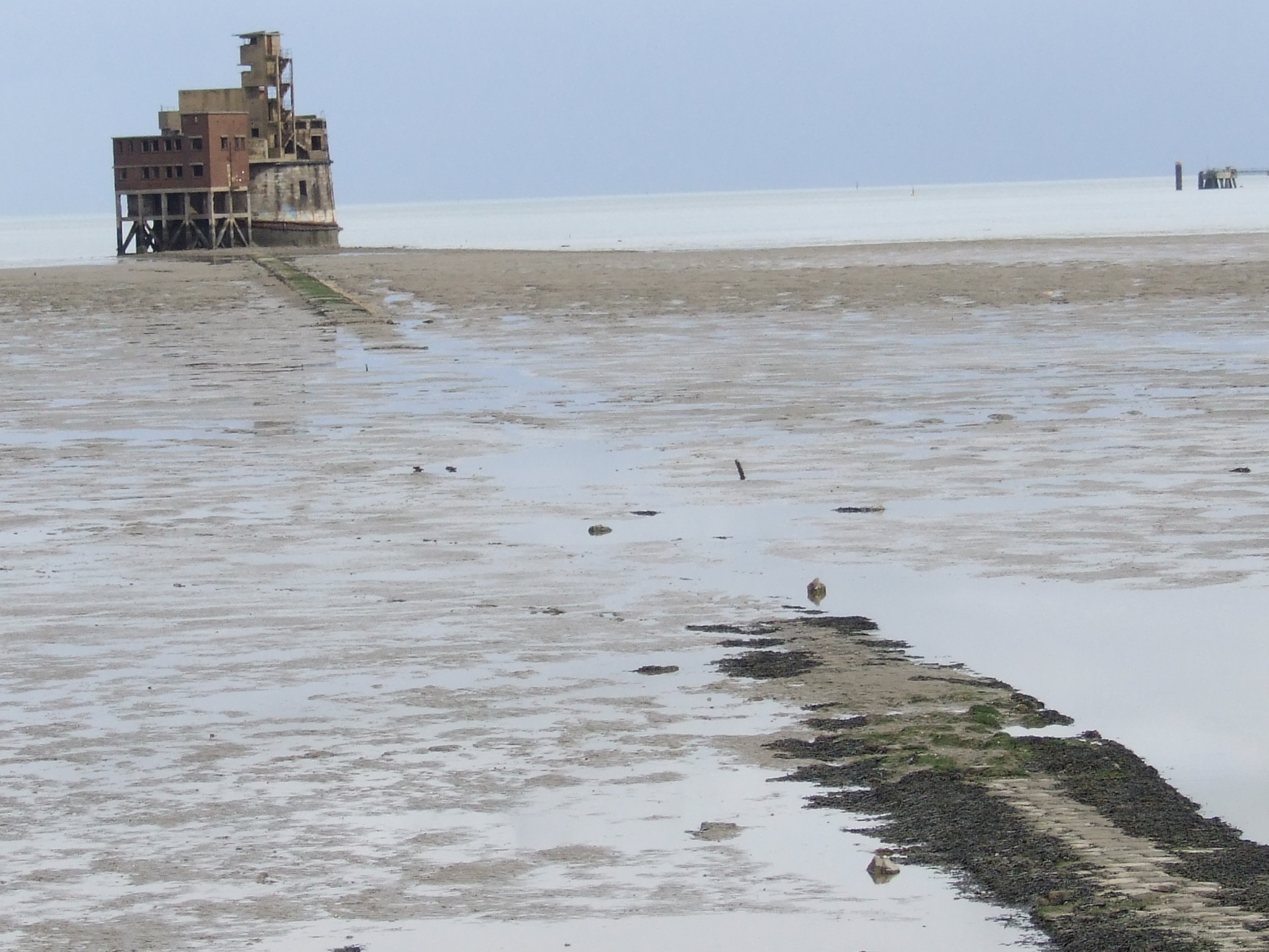 Grain, Kent in the civil parish of Isle of Grain, is a village on the Hoo Peninsula. Grain Tower at low tide with causeway.